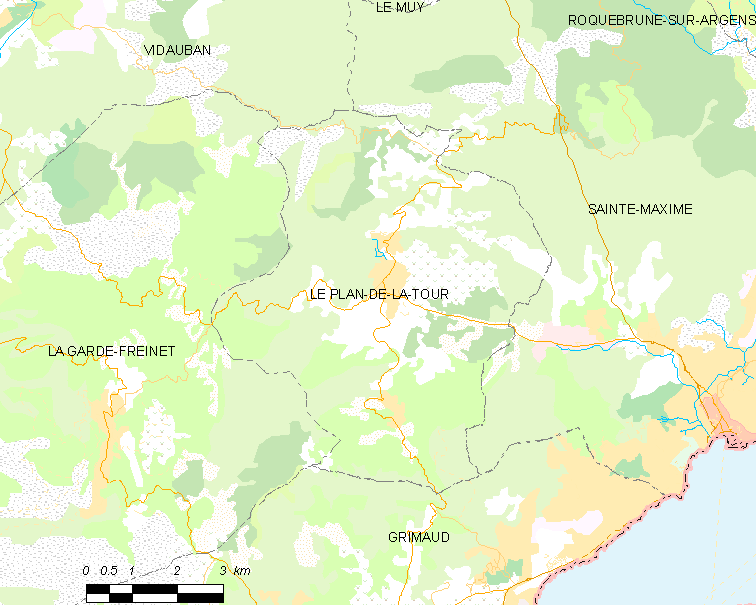 Map of French municipality Le Plan-de-la-Tour